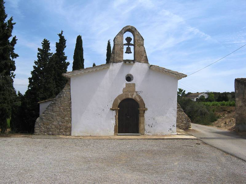 Sant Antoni's chapel in La Llacuneta, municipality of l'Arboç